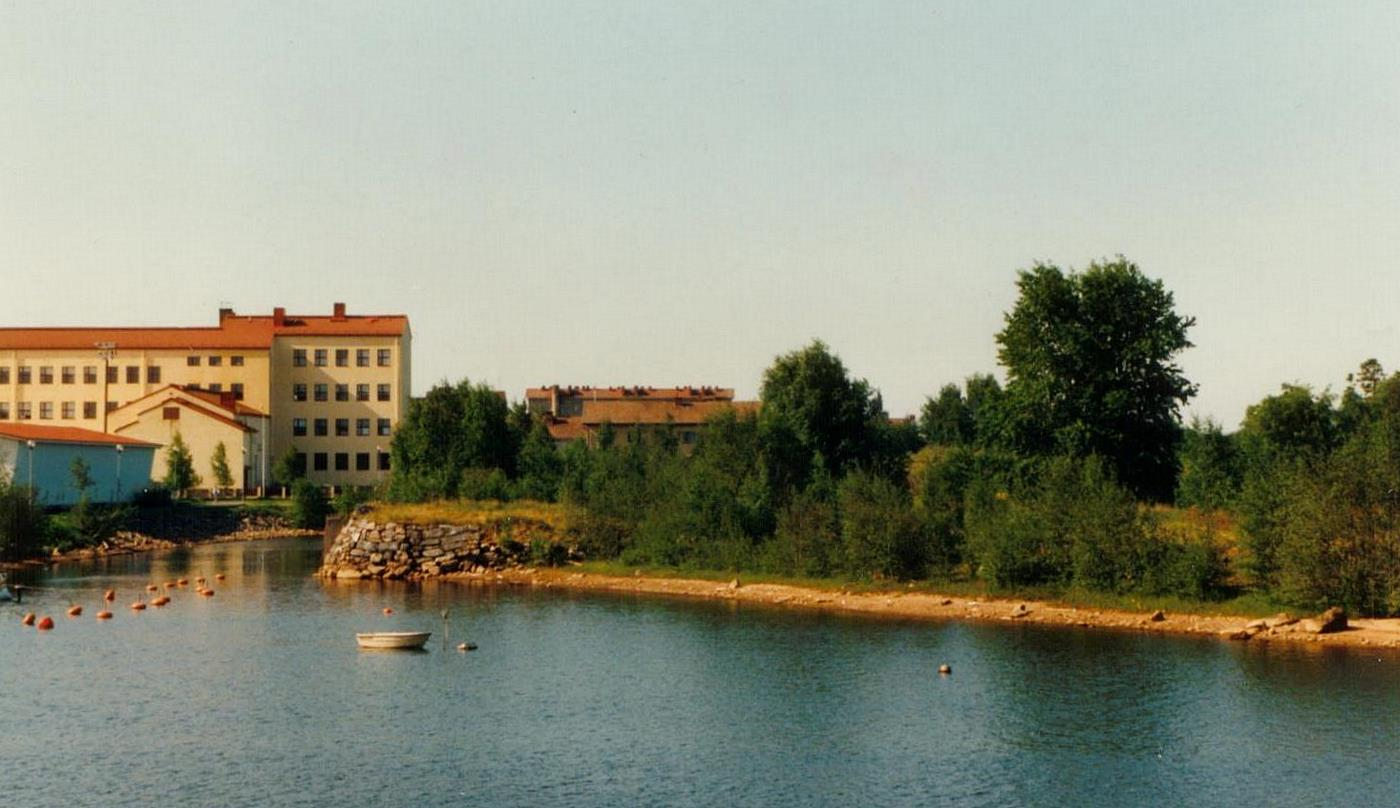 Kiikeli island in summer 1992, before the development project of Meritulli neighbourhood.